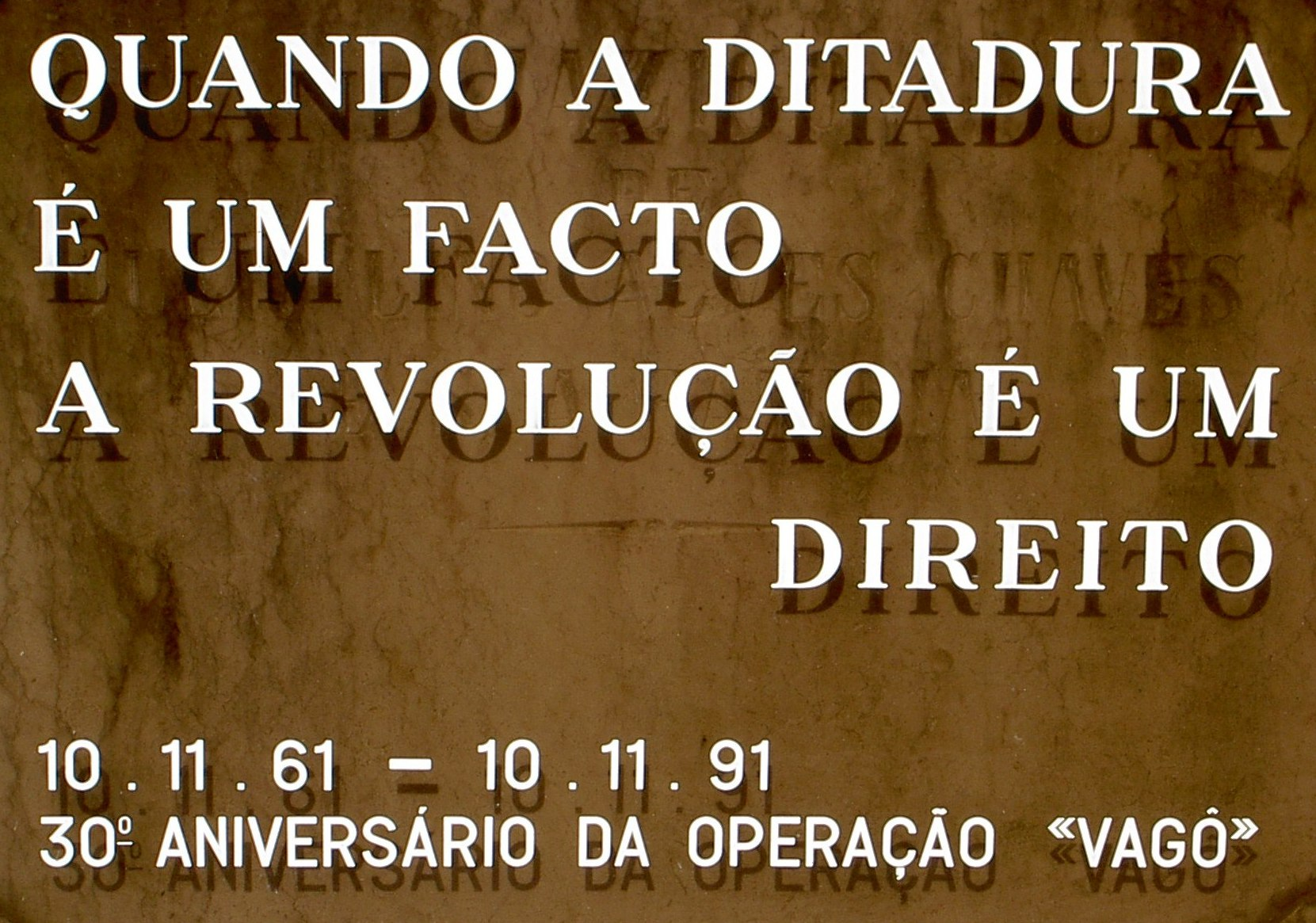 Memorial for anti-Salazar "Operation Vagô", 1961. From the cemetry Cemitério dos Prazeres in Lisbon: "When the dictatorship is a reality, the revolution is a right."